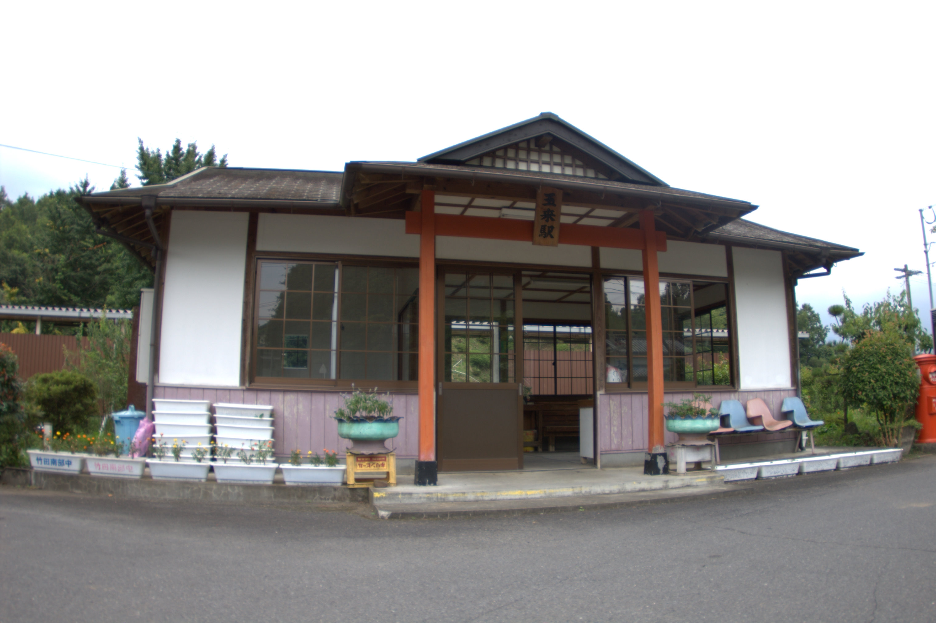 JR Kyushu Tamarai Station on Hohi Main Line.